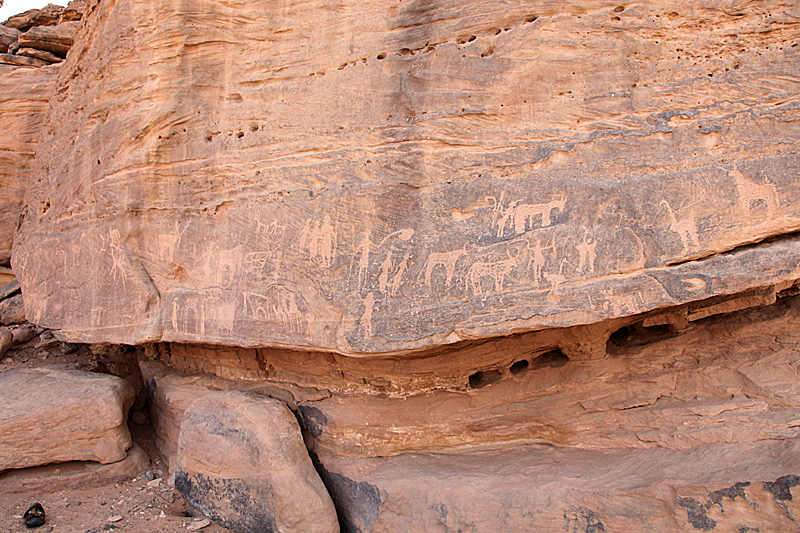 Petroglyph of animals, Karkur Talh, Western Desert, Egypt & Sudan